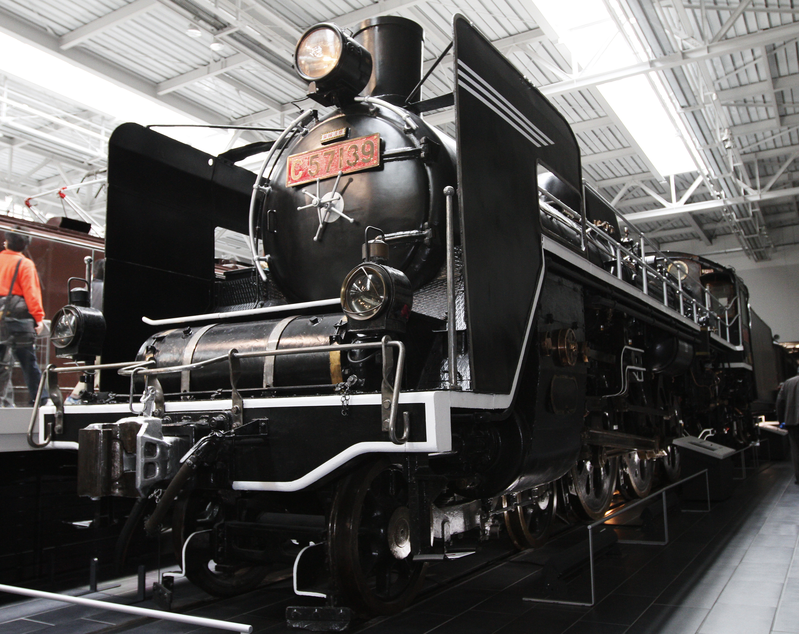 JNR Class C57 steam locomotive C57 139 at the SCMaglev and Railway Park museum in Nagoya, Japan